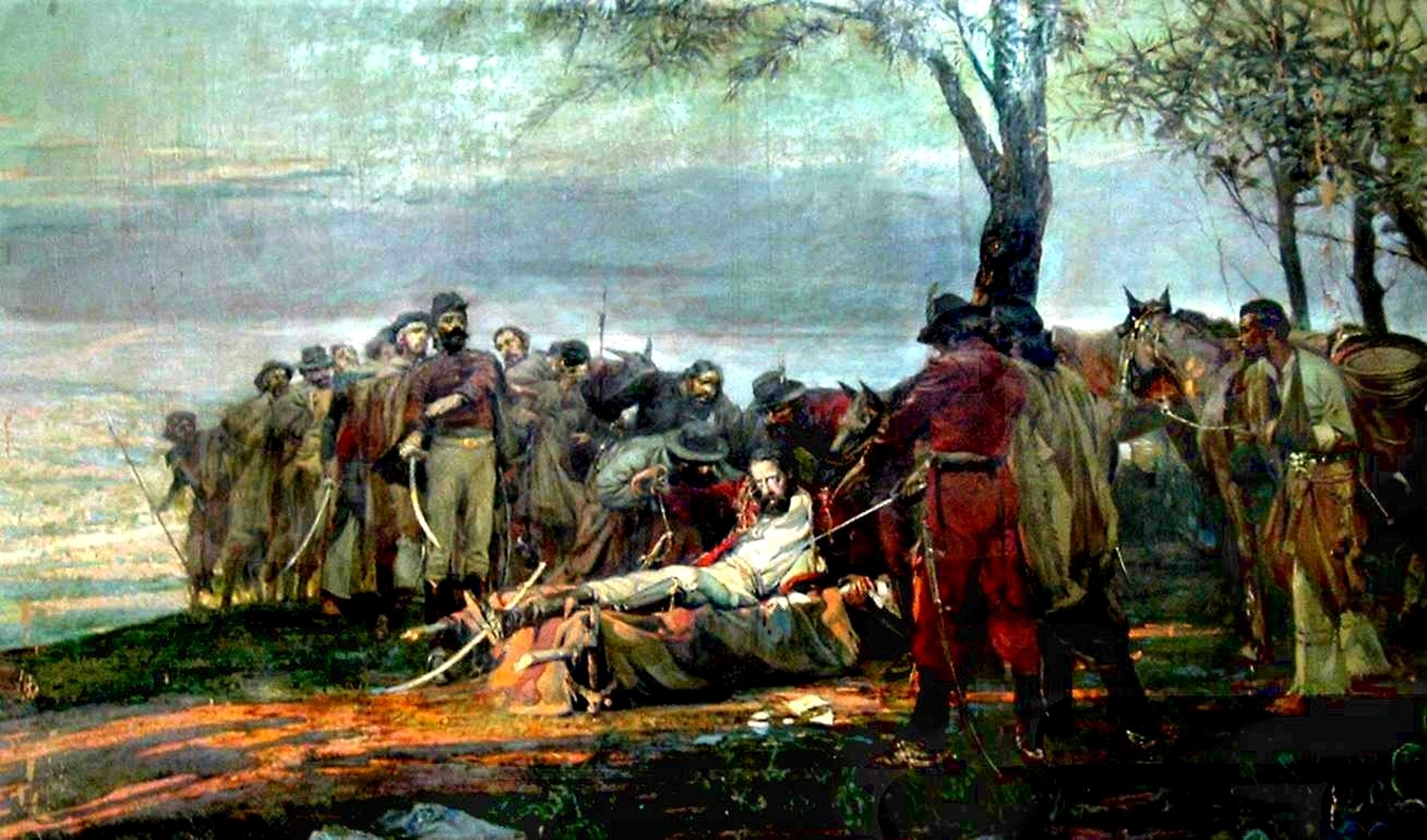 "La Muerte de Güemes" (in spanish, "The death of Güemes"). It depicts the death of |.